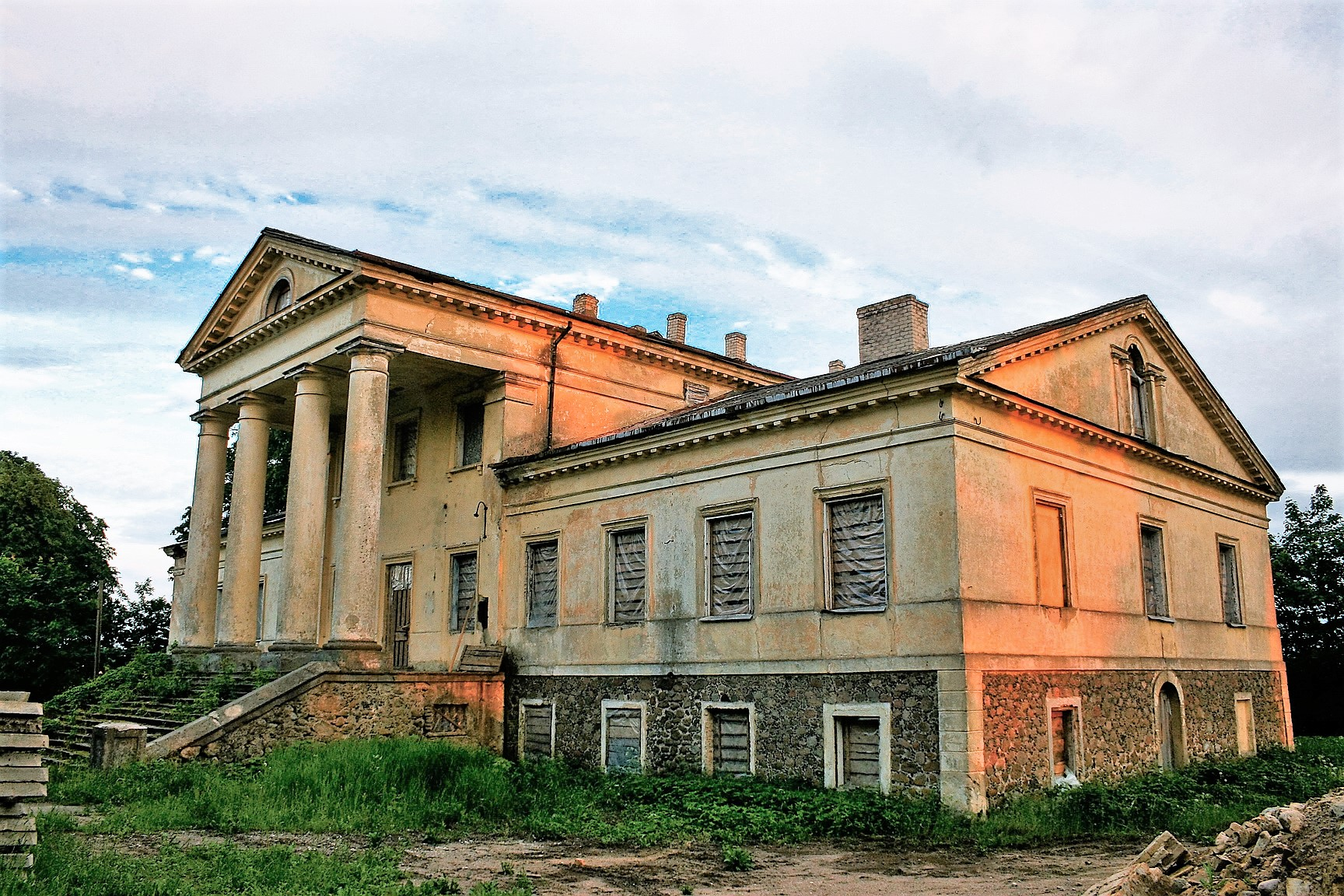 Manor palace of Nemėžis near Vilnius, Lithuania